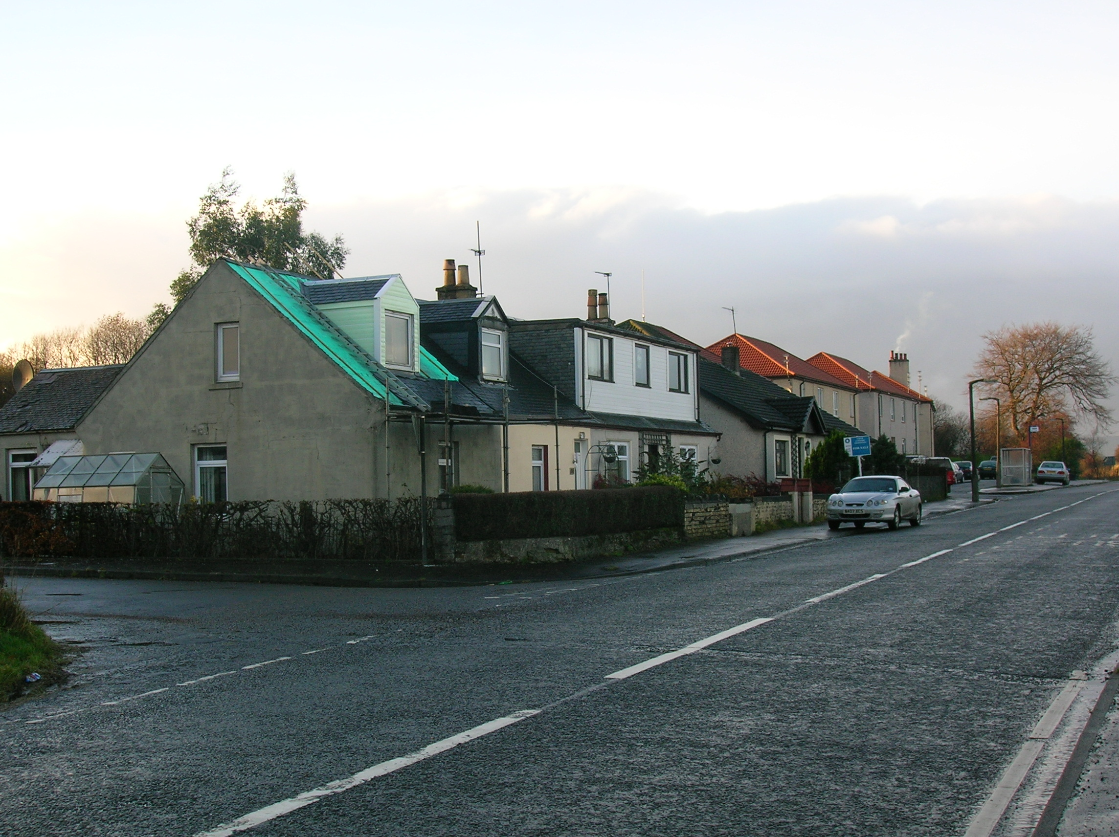 Bellcraig and Craufurd Terrace in Barrmill, North Ayrshire, Scotland